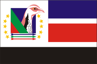 RENAMO current flag